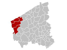 Location of Arrondissement Veurne in Belgium.